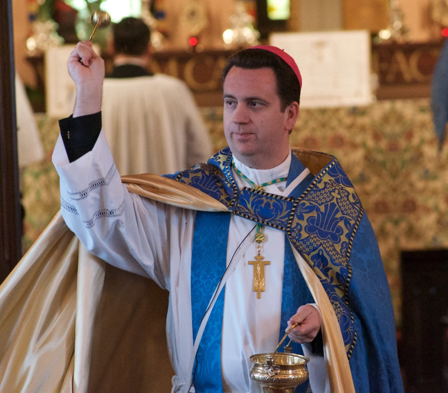 Bishop Steven J. Lopes at St John the Evangelist, Calgary